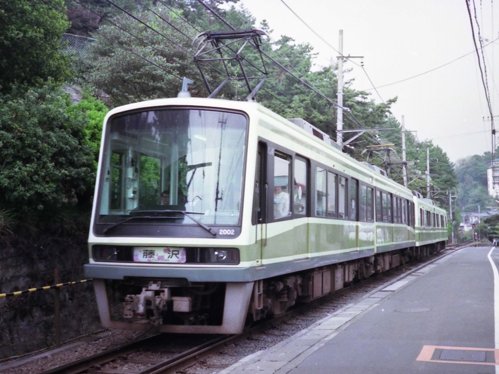 Enoshima Electric Railway type 2000 No.2002